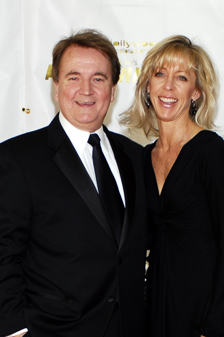 Dave Thomas and wife at the 2006 Annie Awards red carpet at the Alex Theatre in Glendale, California.